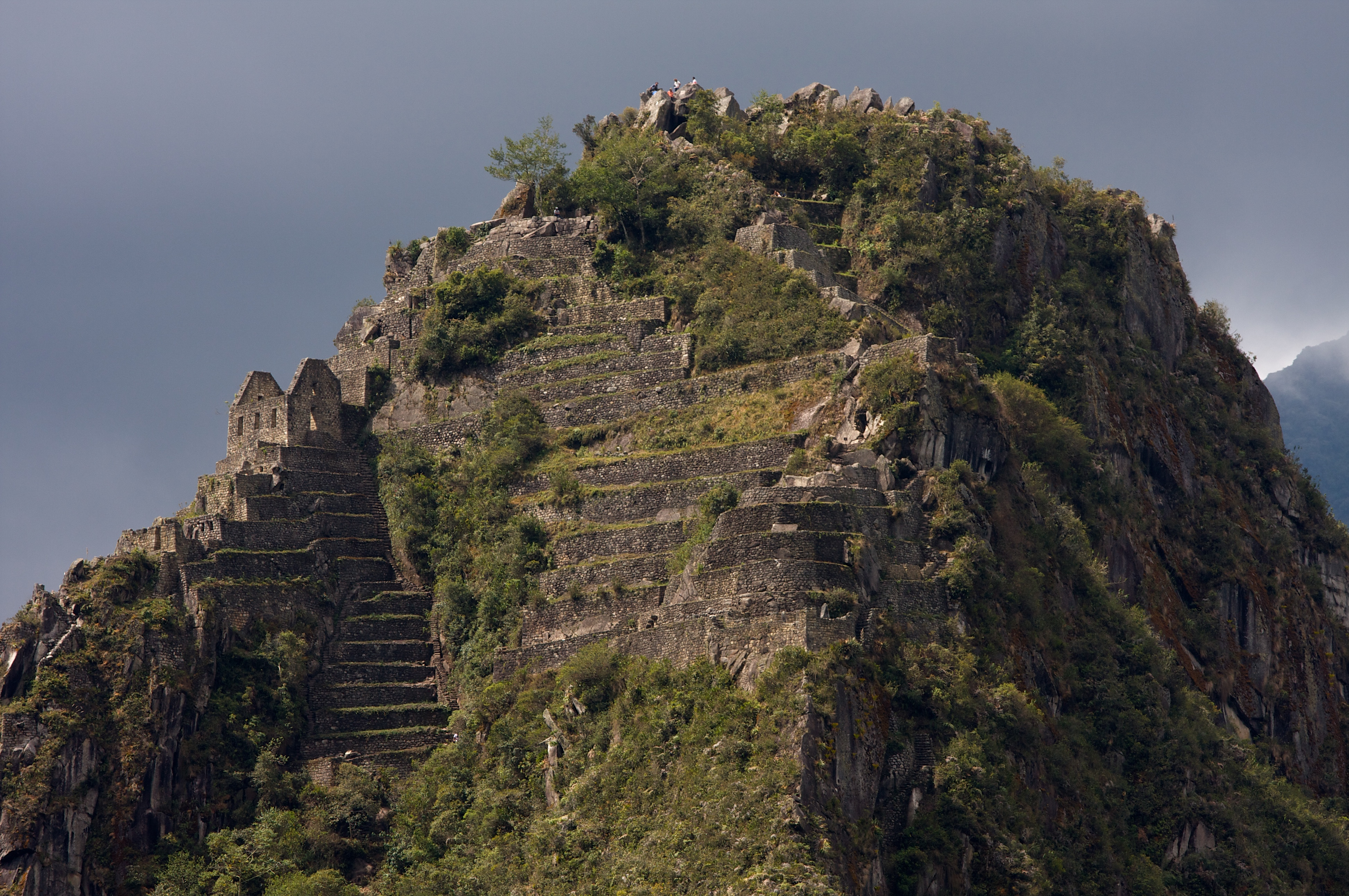 A few ruined buildings and structural terraces remain on Wayna Picchu, the summit often seen behind Machu Picchu.